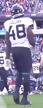 Leon Jacobs 2019. Image from video Ryan Tannehill's Touchdown Runs | Nissan Pylon Cam, ~ 00:22